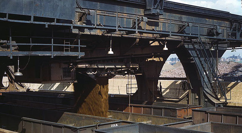 Hulett ore unloader discharging its load into a waiting hopper car. Pennsylvania Railroad ore docks at Cleveland, May 1943. From the Farm Security Administration - Office of War Information Collection at the Library of Congress.